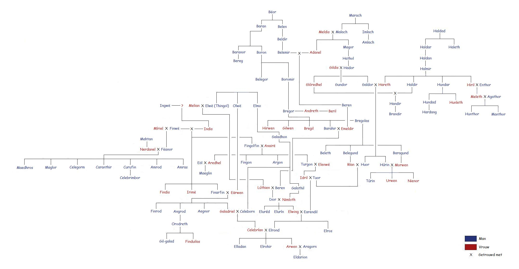 Family tree from J. R. R. Tolkien's Middle-earth legendarium: notable families of the Elves and the three Houses of the Edain.